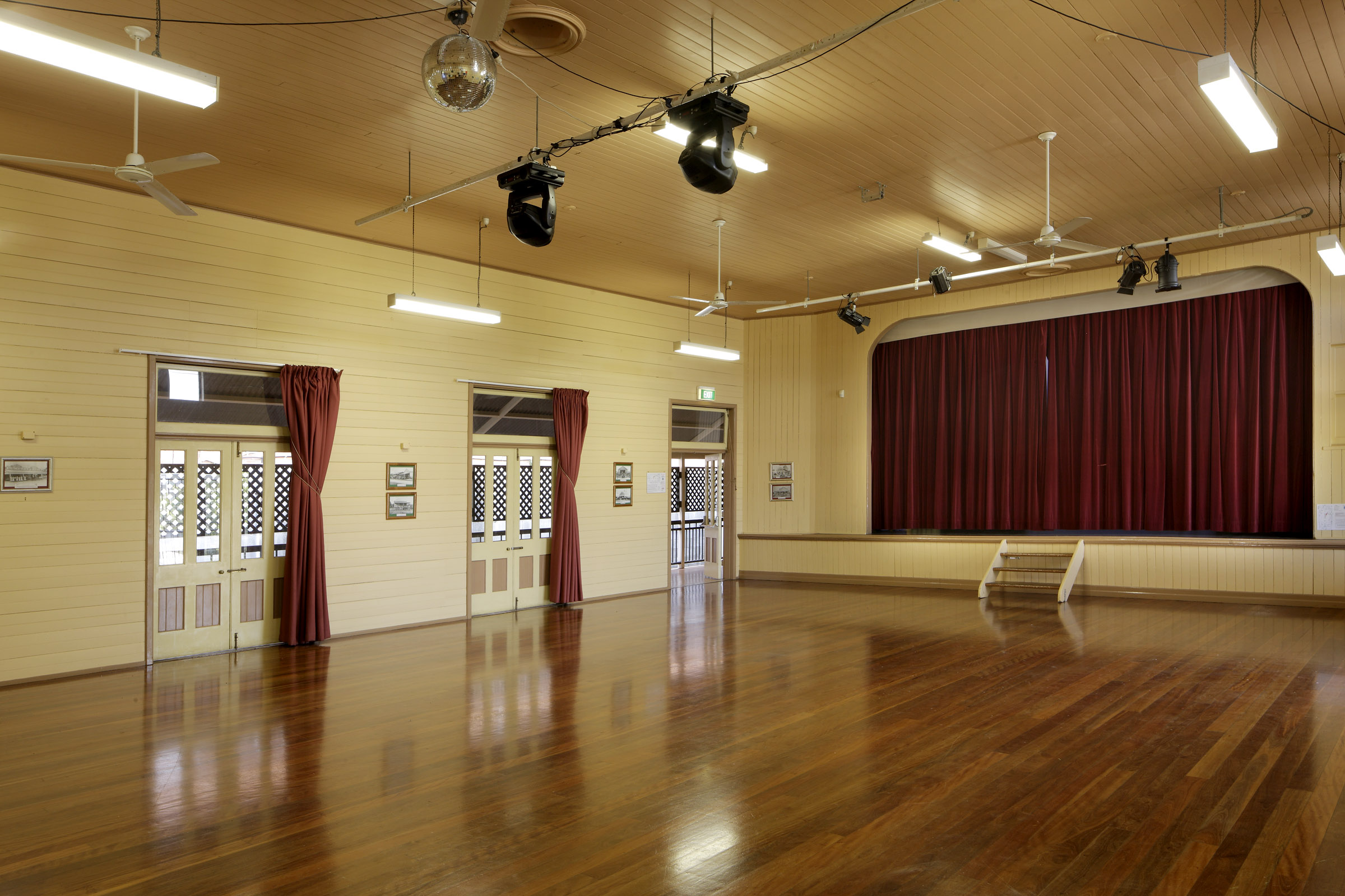 Hall facilities include a kitchen, tables and chairs, disabled access and carparking (available via Danby Lane).